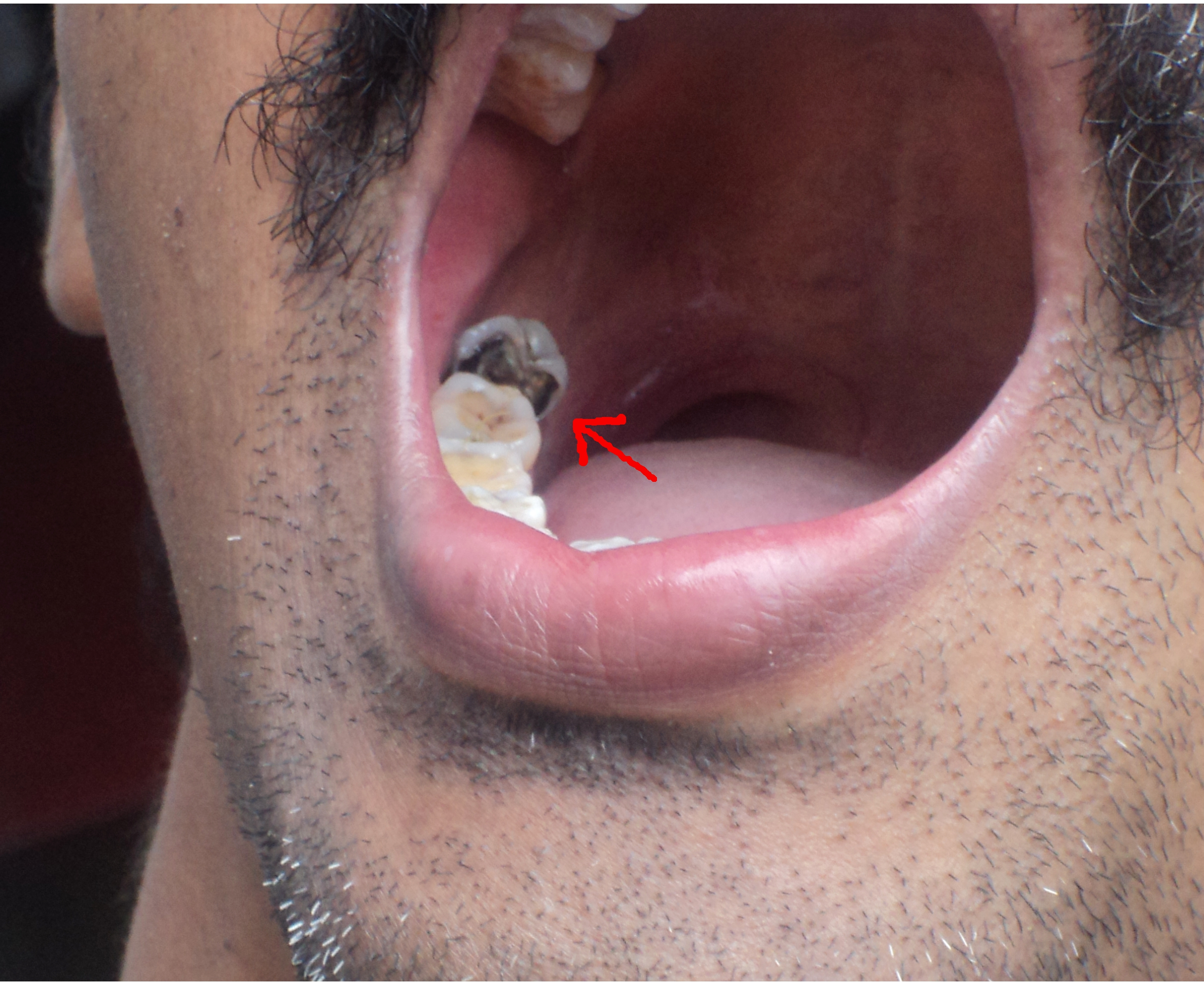 a decayed tooth from a person (me) from Tamil Nadu.